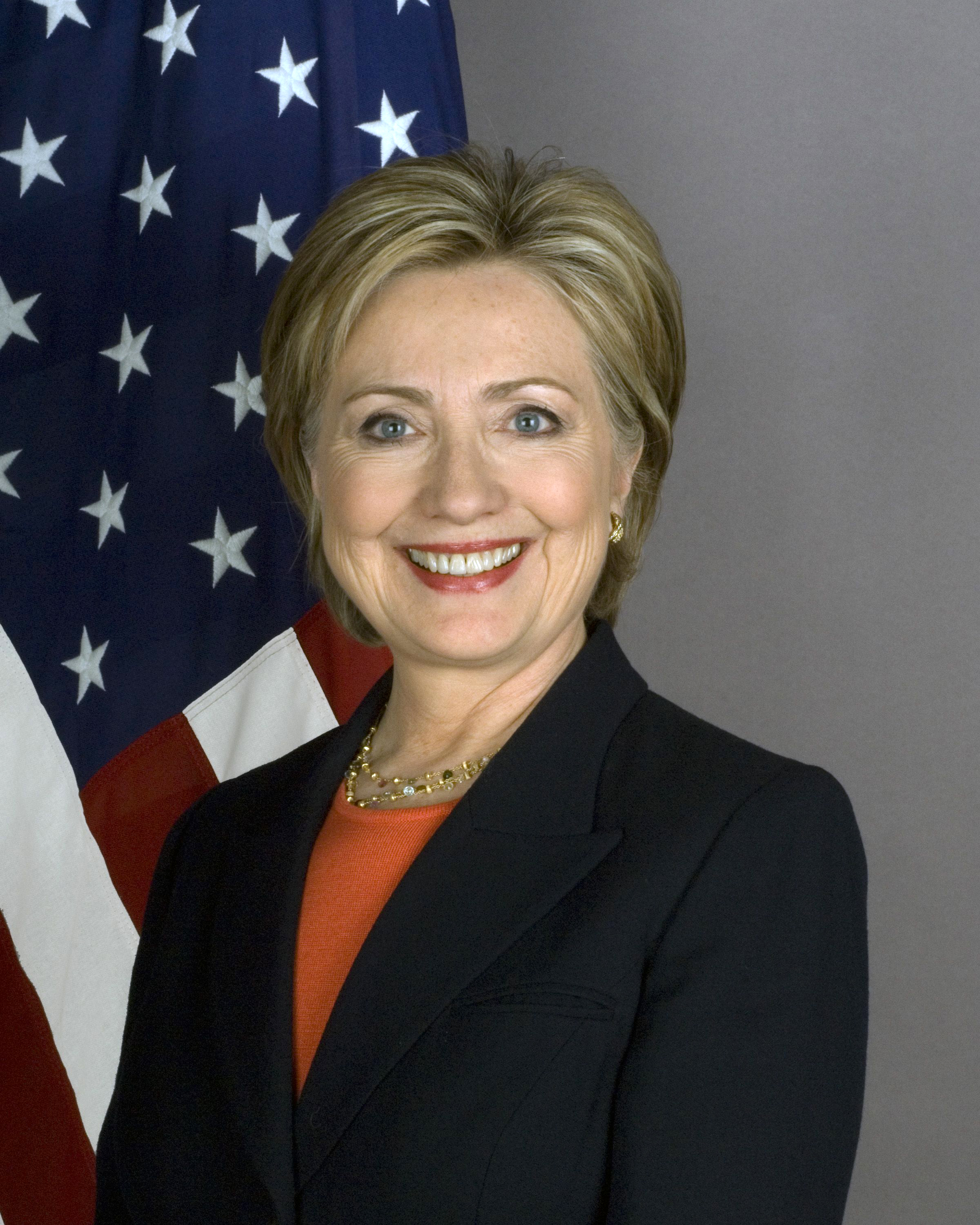 Official portrait of United States Secretary of State Hillary Rodham Clinton